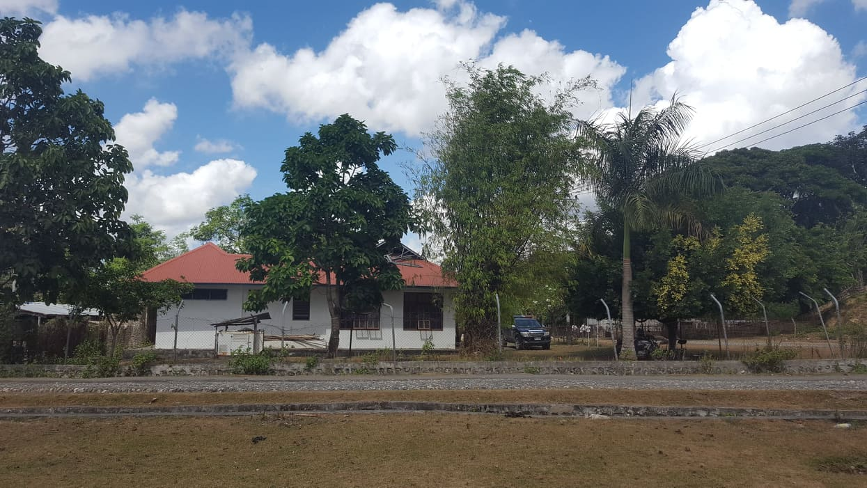 Police station in Dilor, East Timor